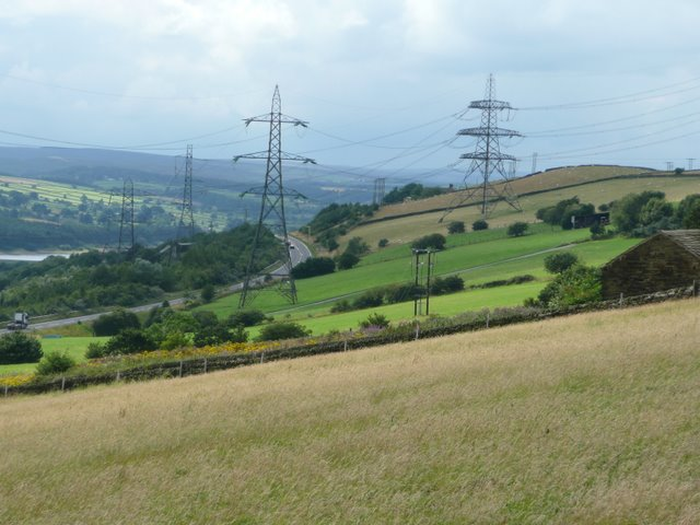 View towards Langsett along the A616 Stocksbridge Bypass